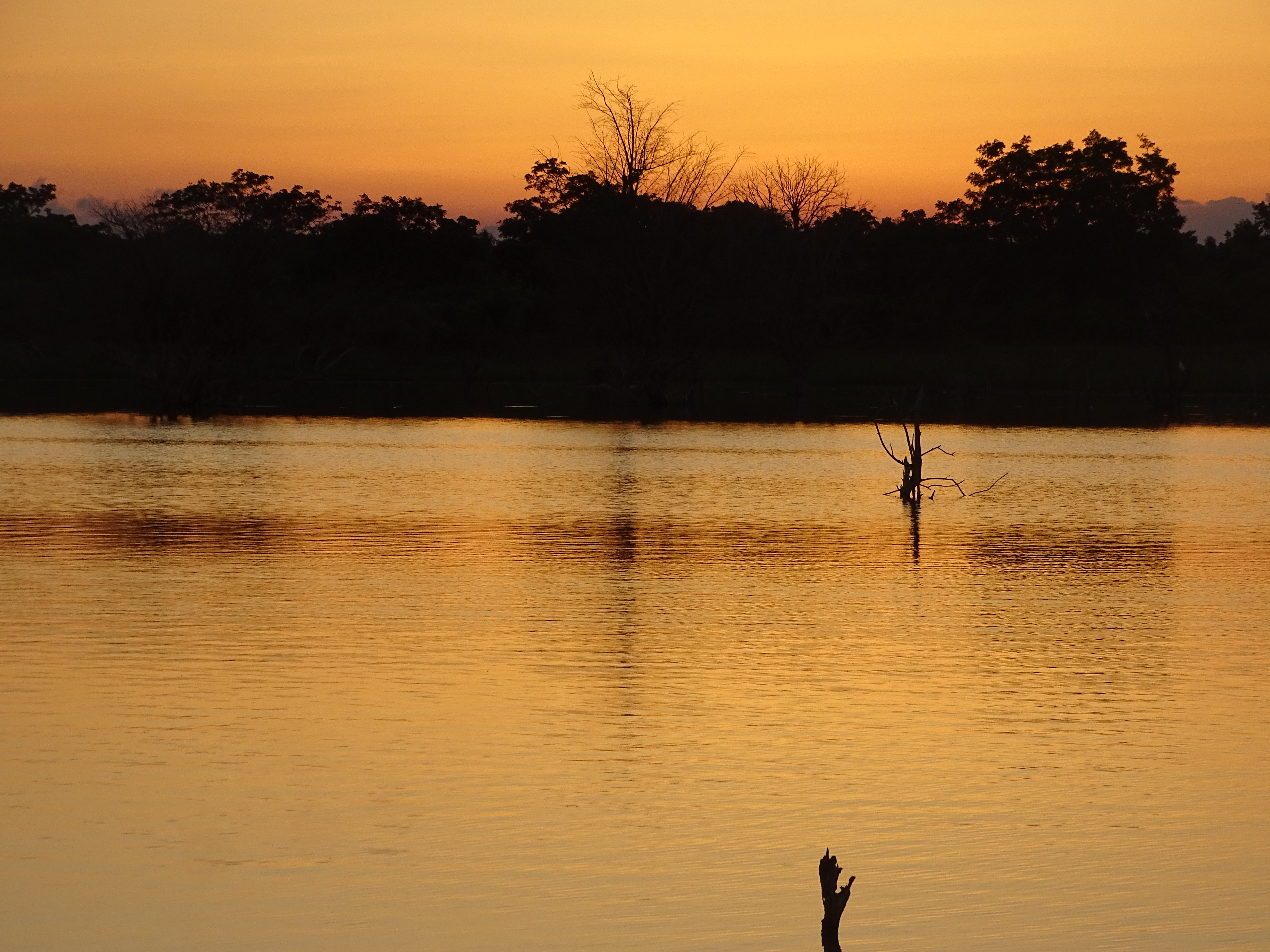 Tanguiéta has a rugged terrain. tourism, agriculture, breeding, fishing and hunting are activities practiced by the population. "Tanguiéta, the first tourist destination of Benin in 2025, where the conservation of natural resources has improved with the fruitful collaboration of all development actors". the municipality has an invaluable tourist potential (the national park of the jail which with 275.000 ha, 02 big cascade of waterfall, the specific haunts tata somba, the chain of the atacora which represents a breeze natural wind against the high wind of the region)